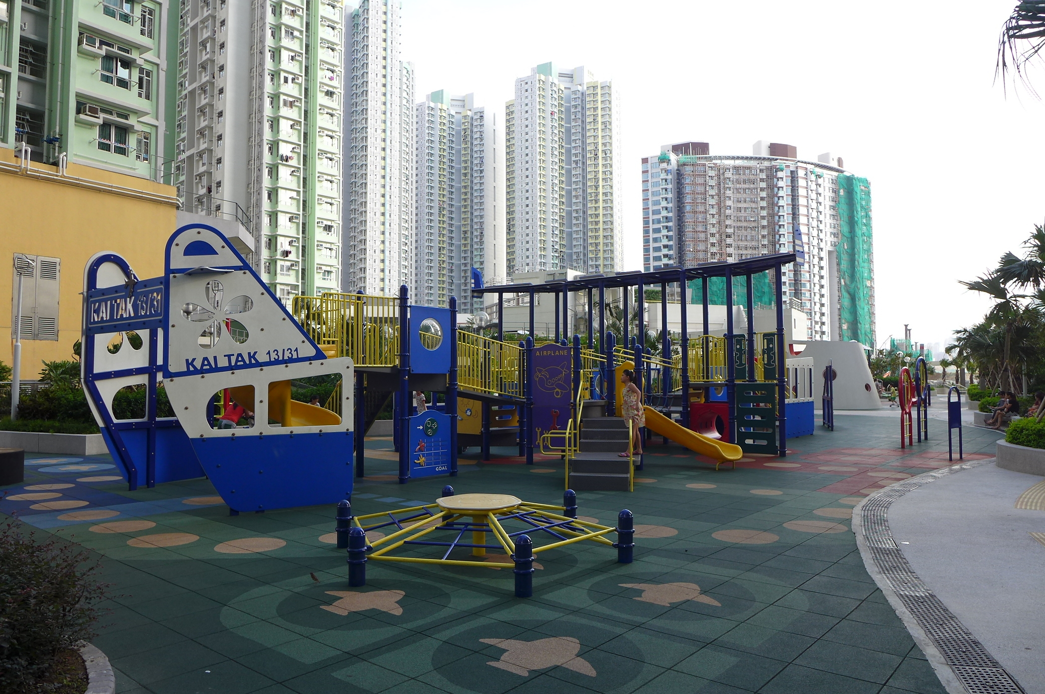 Kai Ching Estate Playground